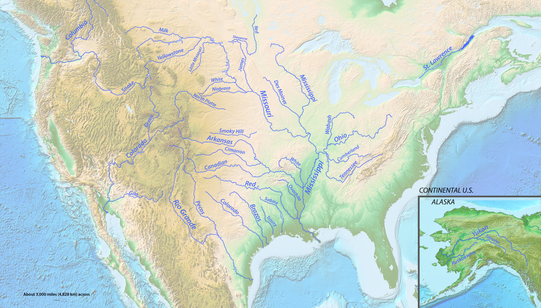 For the corresponding article on the English Wikipedia